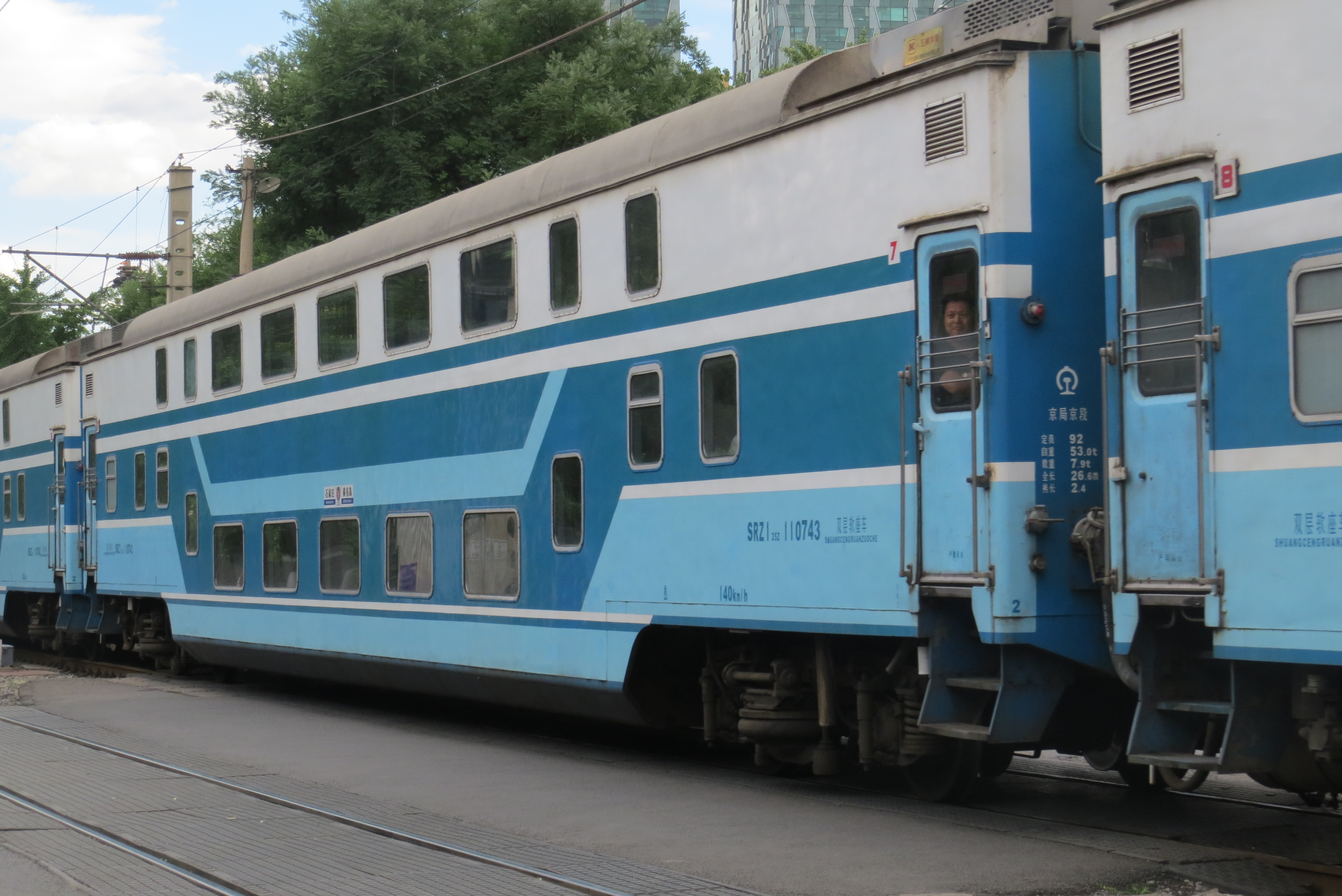 T5684 to Shijiazhuang.